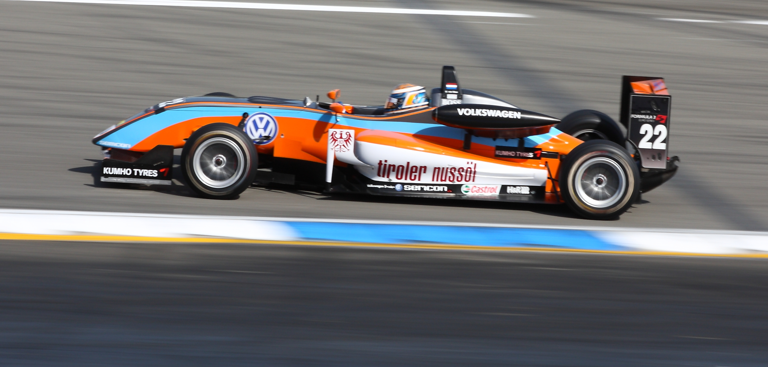 Formula 3 Euroseries, Hockenheimring, #22 Carlo van Dam